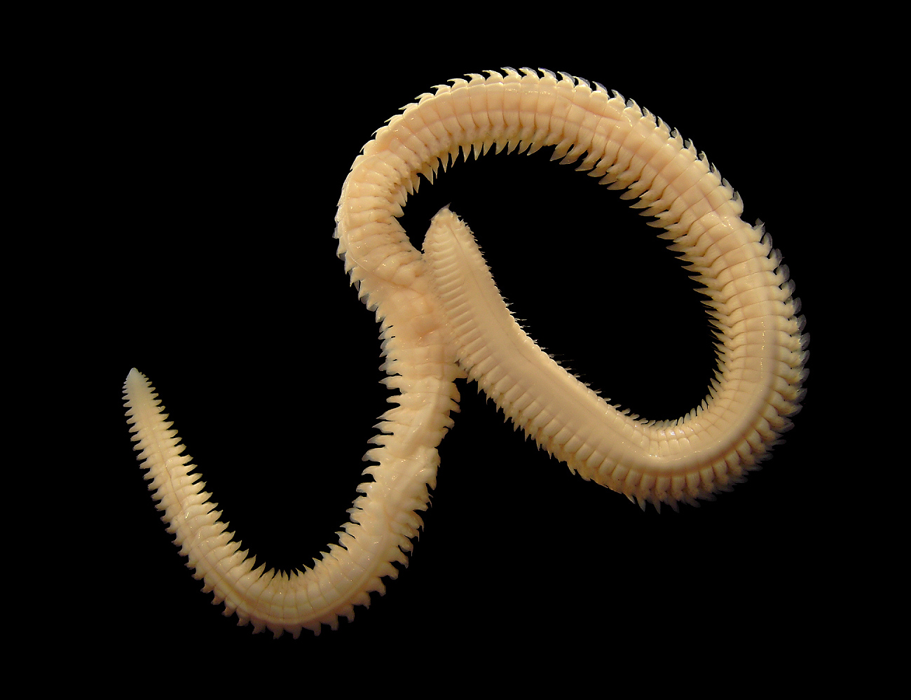 A Catworm, a large predatory polychaete from sandy sediments from the Belgian continental shelf.Length: ~14cm.